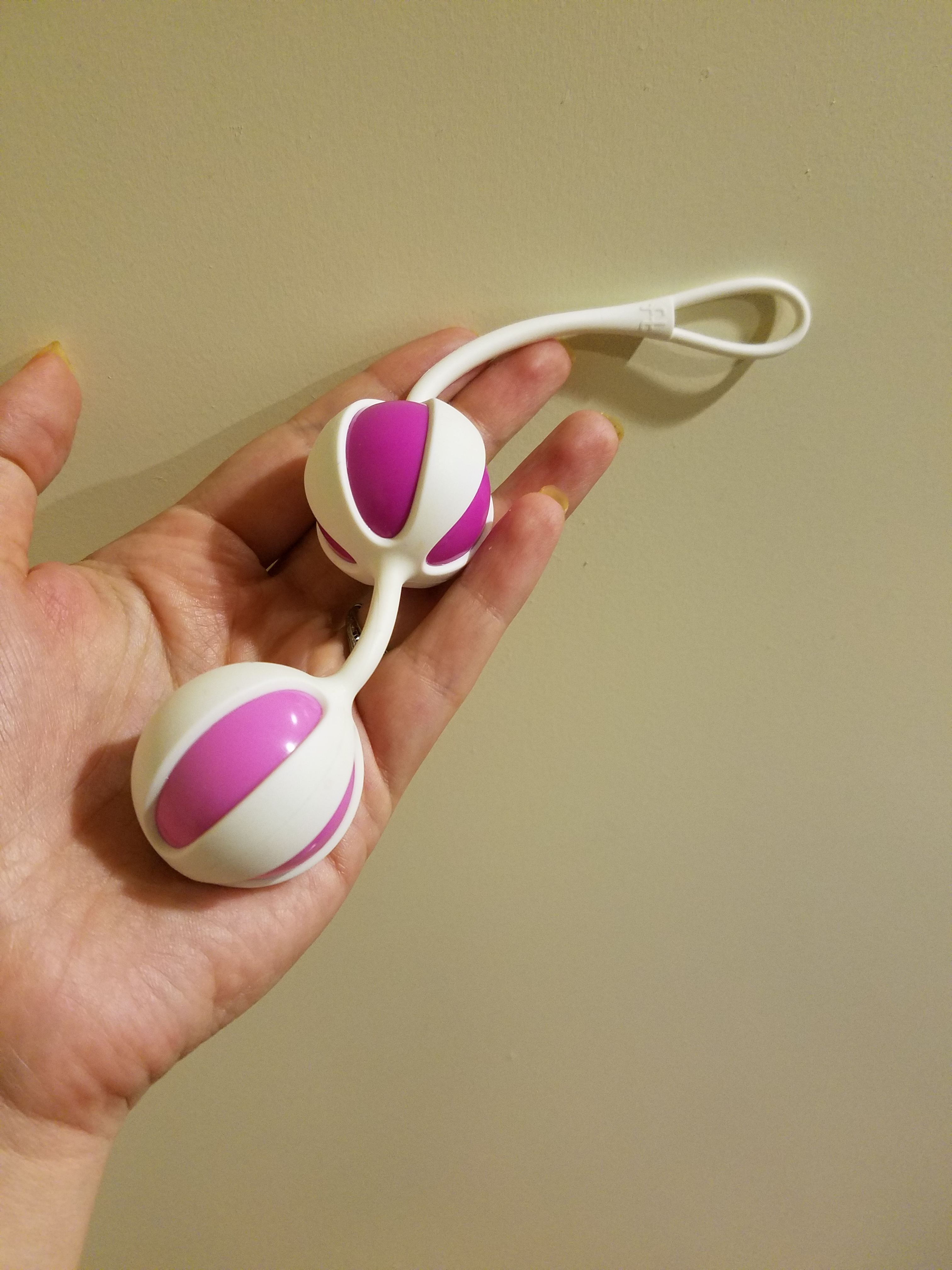 A set of silicon ben wa balls